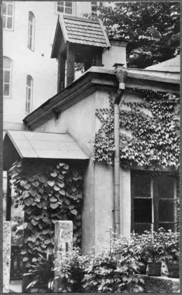 The chapel of the Swedish spiritualist society Edelweissförbundet, Grev Turegatan 68, Stockholm